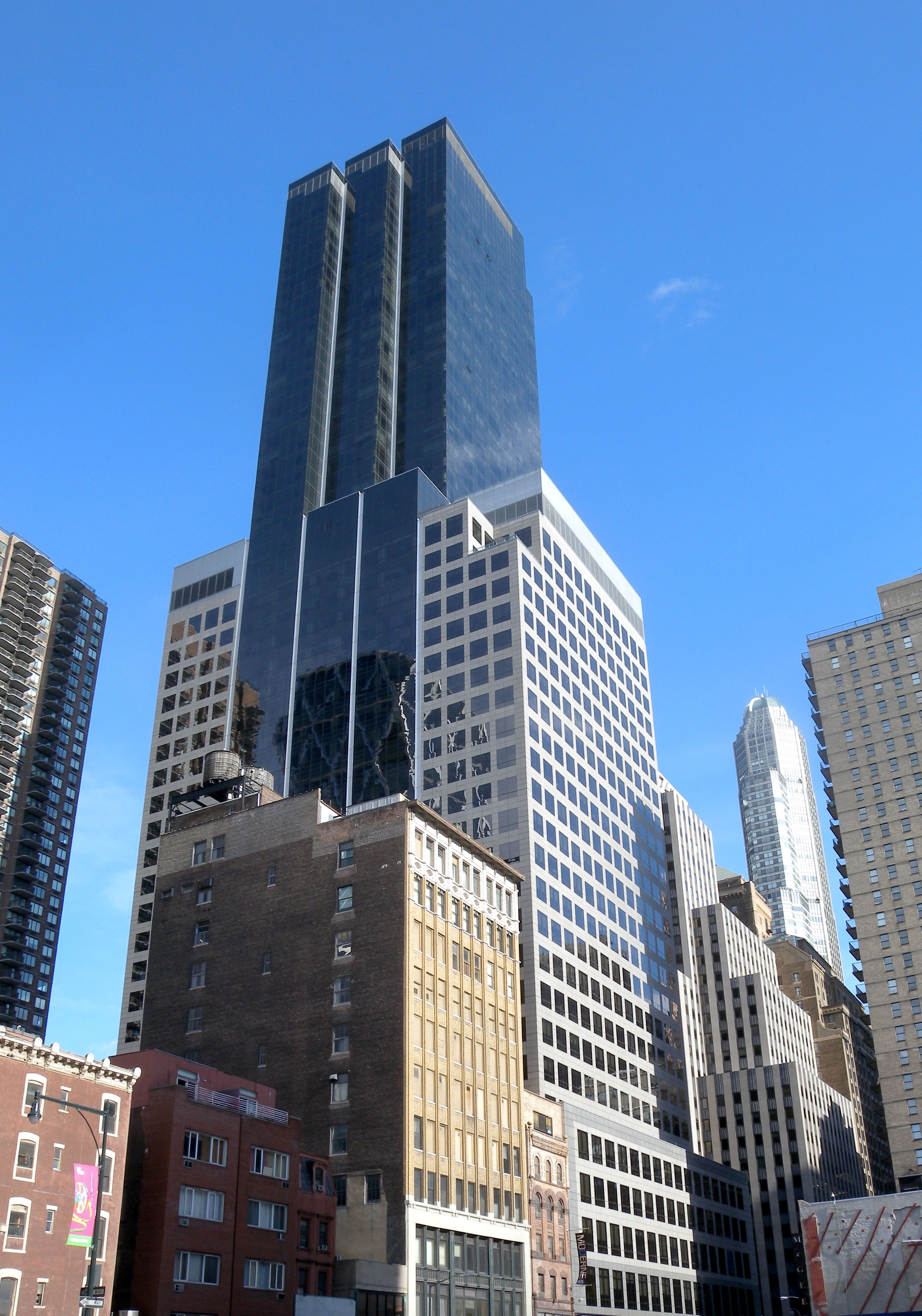 Looking northeast from 8th Ave at Random House tower including dark and pale parts on a sunny afternoon. See also File:Random-house2.jpg.